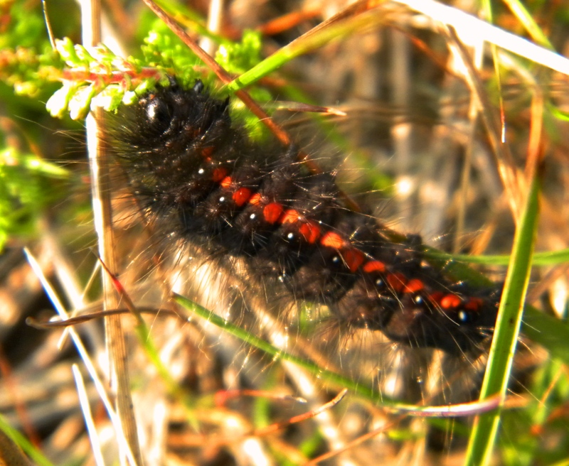 Acronicta menyanthidis, larva. Location: Hoge Veluwe, Deelensche Veld (the Netherlands)